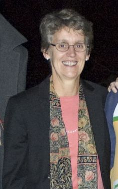 Catharine Bond Hill, 10th president of Vassar College at her home on Halloween 2007.